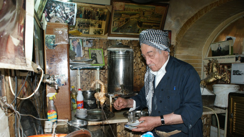 Maam Khalil's Tea Shop in Qaysari Bazaar, serving Tea to a customer.